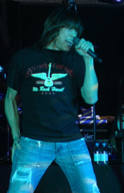 Jeff Keith from Tesla (taken by myself, at Hard Rock Hell, Minehead 2007, UK)